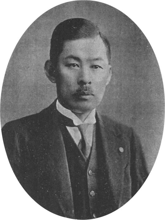 Taneyoshi Uehara, Director of the Mie Higher School of Agriculture and forestry.